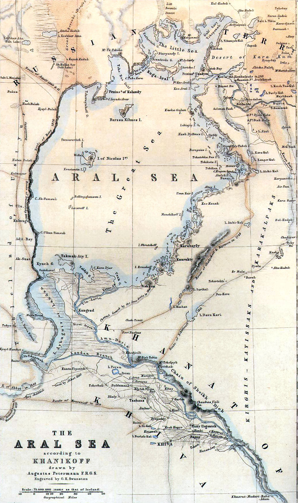 Map of Aral Sea and Khanat of Khiva created by Yakov Khanikoff(1818-62) at 1851